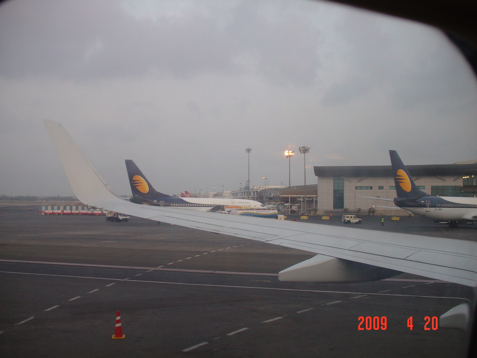 Several Jet Airways Boeing 737s parked at Chhatrapati Shivaji International Airport, Mumbai, India.